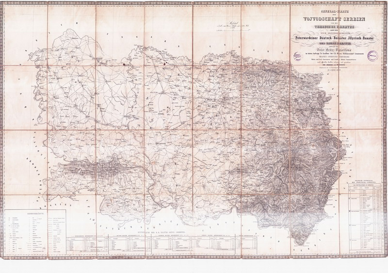 Old map of Voivodeship of Serbia and Banat of Temeschwar (Vojvodschaft Serbien und des Temescher Banates) from 1853.